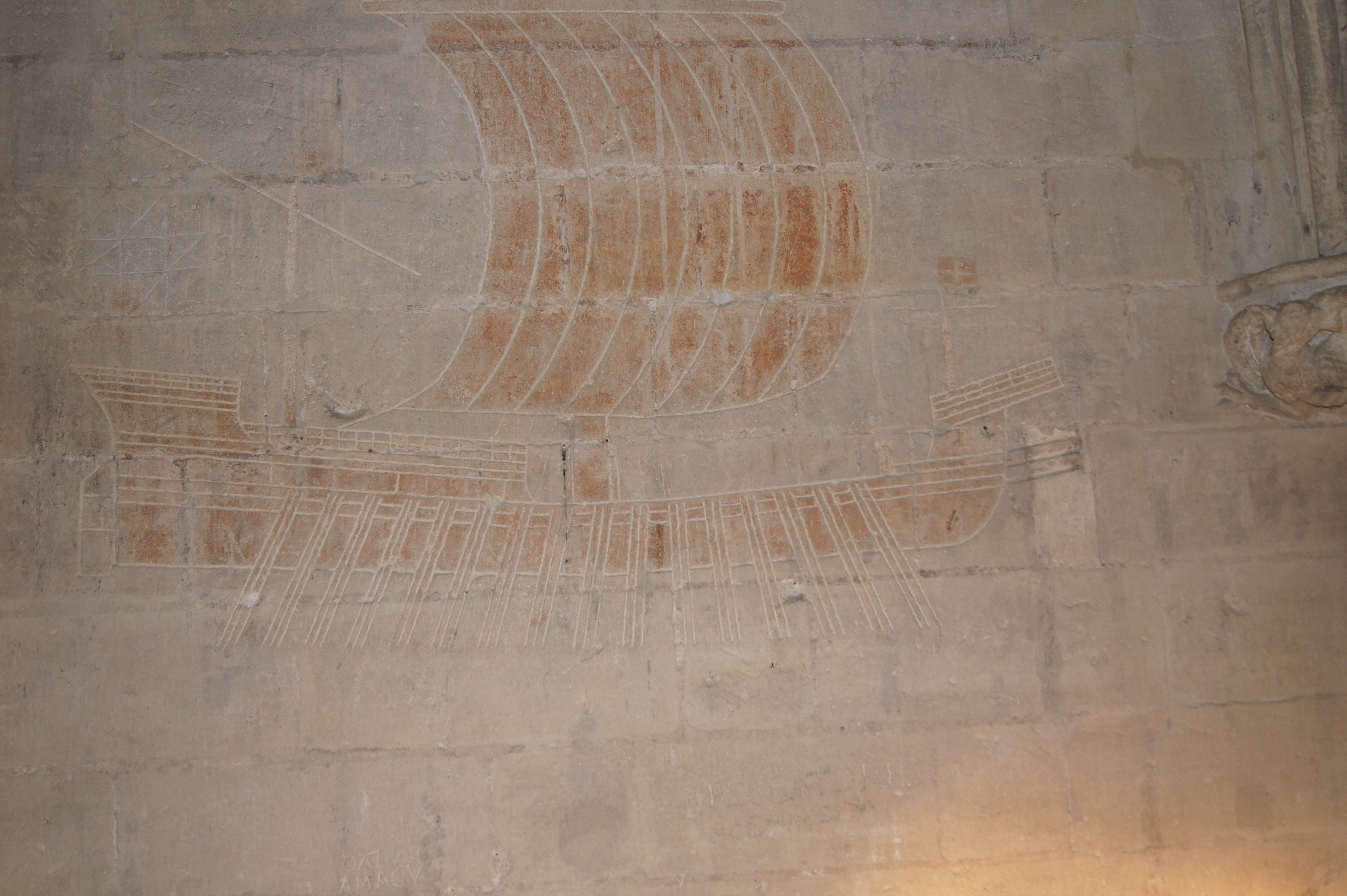 Graffiti of a boat in the fortress of Tarascon (France, Bouches-du-Rhône)